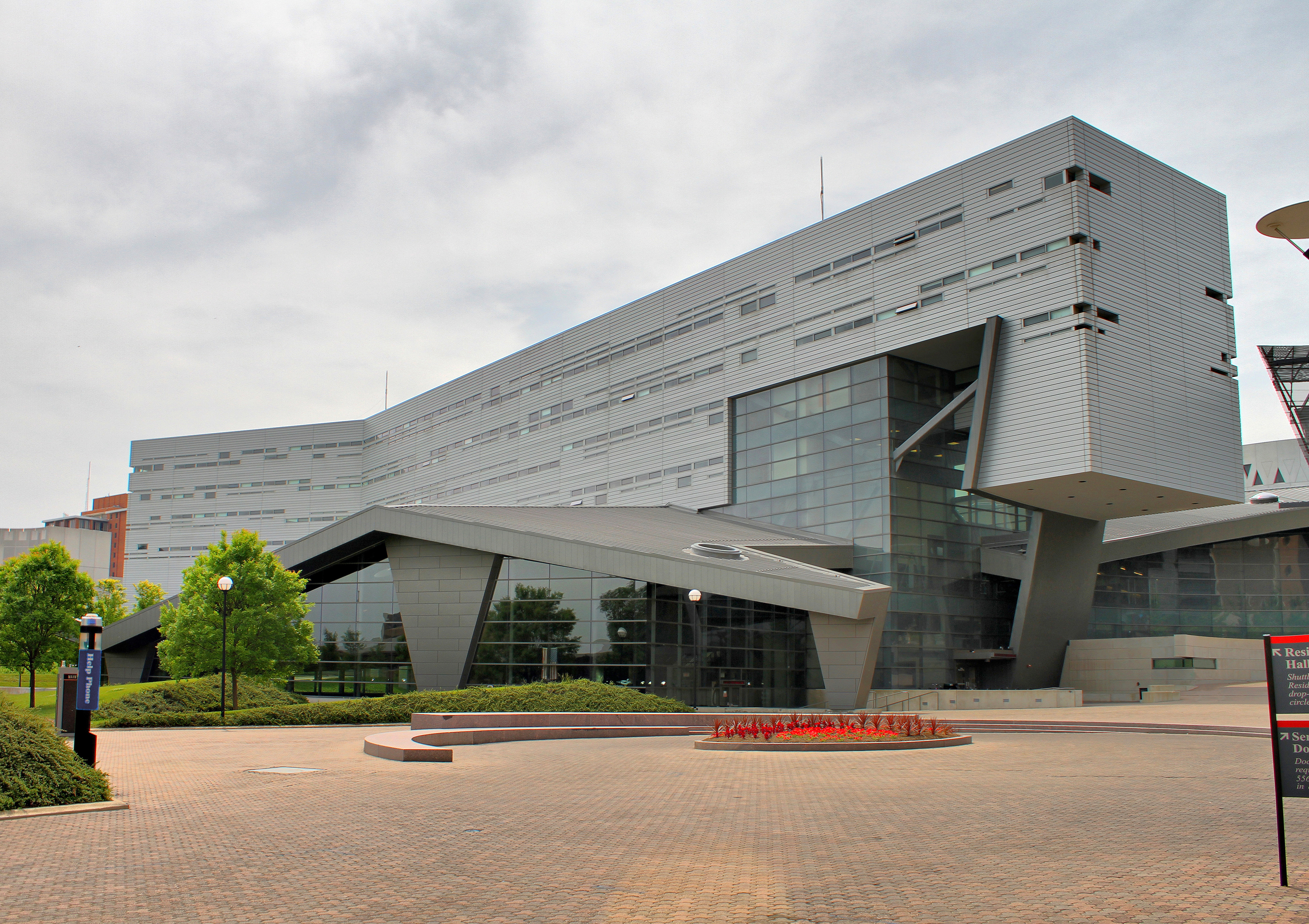 HDR image of University of Cincinnati Campus Recreation Center Housing